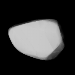 3D convex shape model of 1687 Glarona, computed using light curve inversion techniques. J. Hanuš, J. Ďurech, M. Brož, B. D. Warner (June 2011). "A study of asteroid pole-latitude distribution based on an extended set of shape models derived by the lightcurve inversion method". Astronomy and Astrophysics 530: A134. ISSN 0004-6361. arXiv